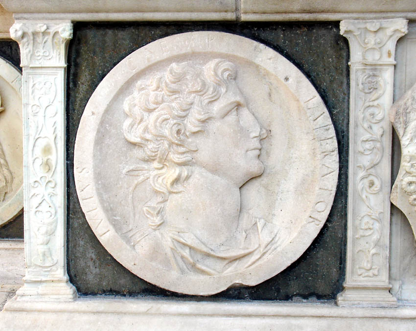 Medallion showing an idealized renaissance portrait of Julius Caesar, on the front of the Cetosa di Pavia.